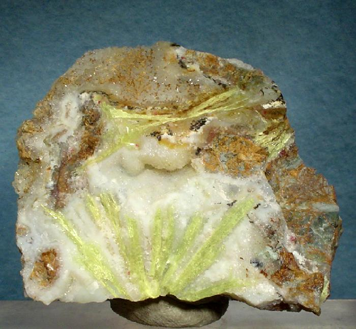 Carpathite Locality: Picacho Mine (Picachos Mine; Los Picachos Mine; Picahotes Mine; Benta Mine; Hernandez Mine; Ramirez Mine; Bonanza Mine), New Idria District, Diablo Range, San Benito County, California, USA (Locality at ) Size: 5.3 x 4.1 x 2.8 cm. Carpathite (aka Karpatite) is a very rare organic species, being a polycyclic aromatic hydrocarbon (PAH). This striking specimen from the old Picacho Mercury Mine of California features a very interesting radial spray of highly lustrous, canary-yellow carpathite lathes to 2.0 cm on starkly contrasting, sparkly, drusy quartz. Another crossed cluster of crystals above reach 3.0 cm. Scattered about are red blebs of cinnabar. A very rich, fine and highly representative example of this rare species from this well-known locale. Highly fluorescent, as well.